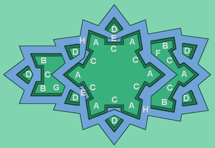 Star fort